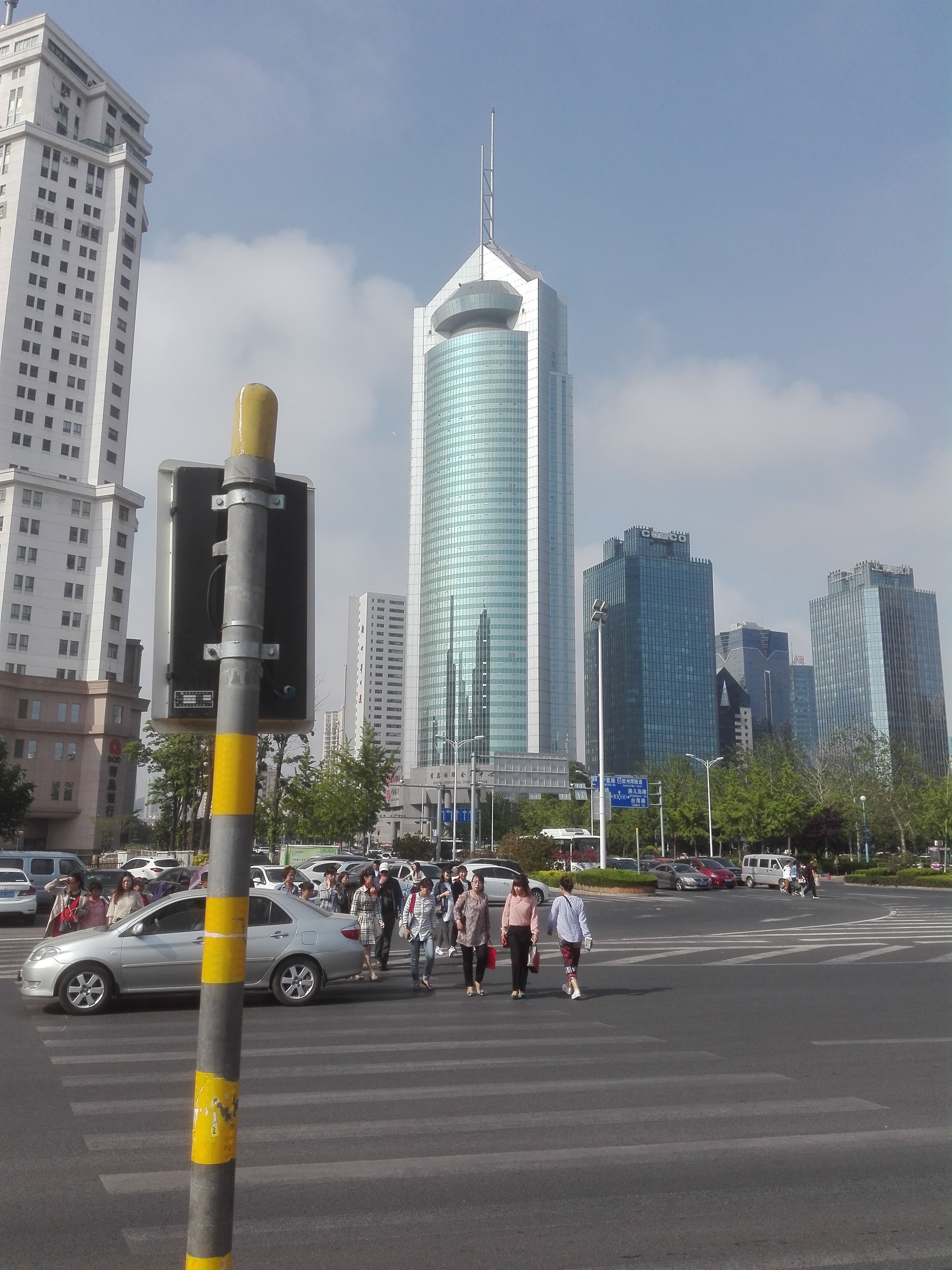 Qingdao International Finance Center